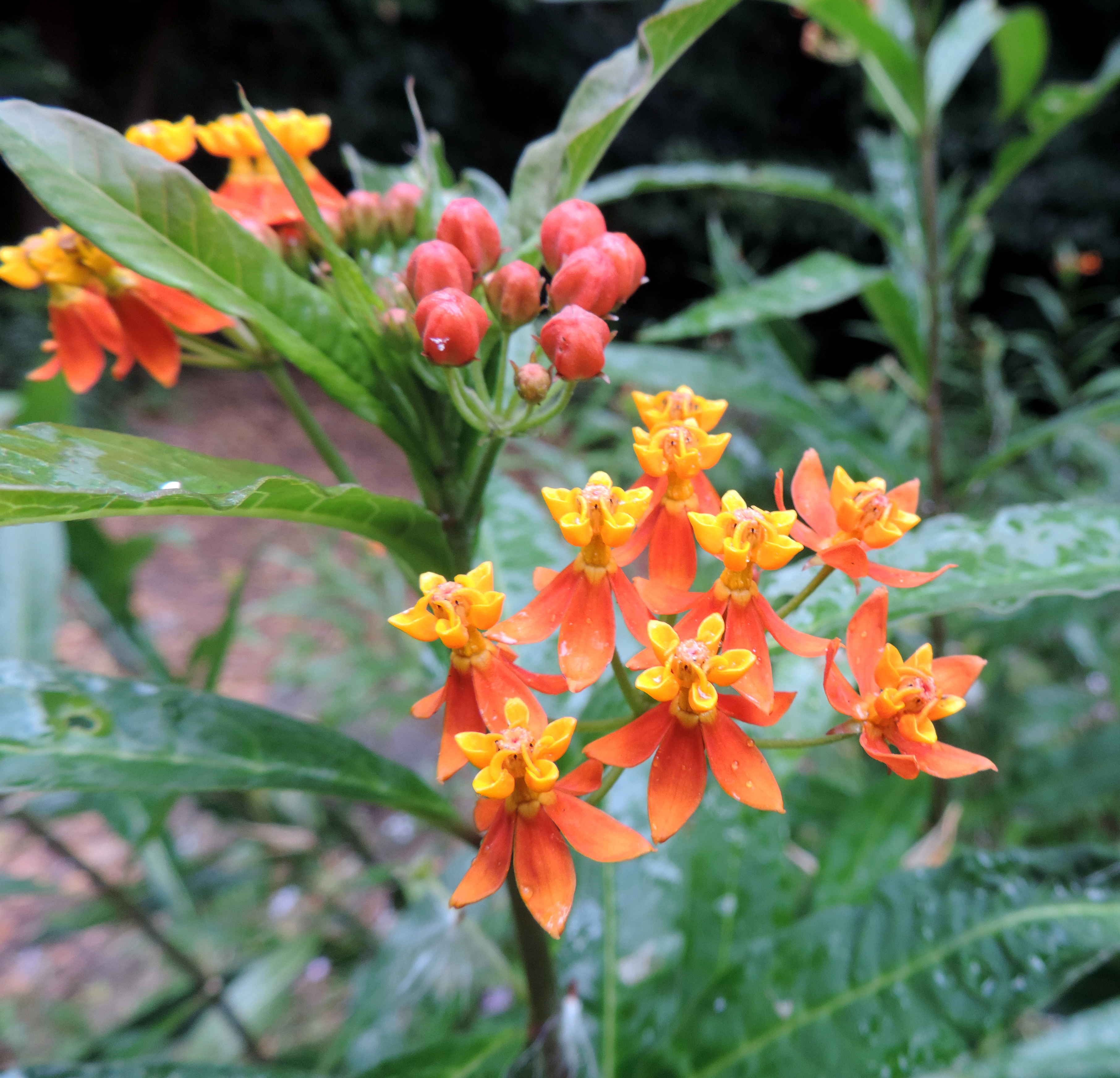 Asclepias curassavica, Jardín Botánico Canario Viera y Clavijo in Tafira Alta, Gran Canaria